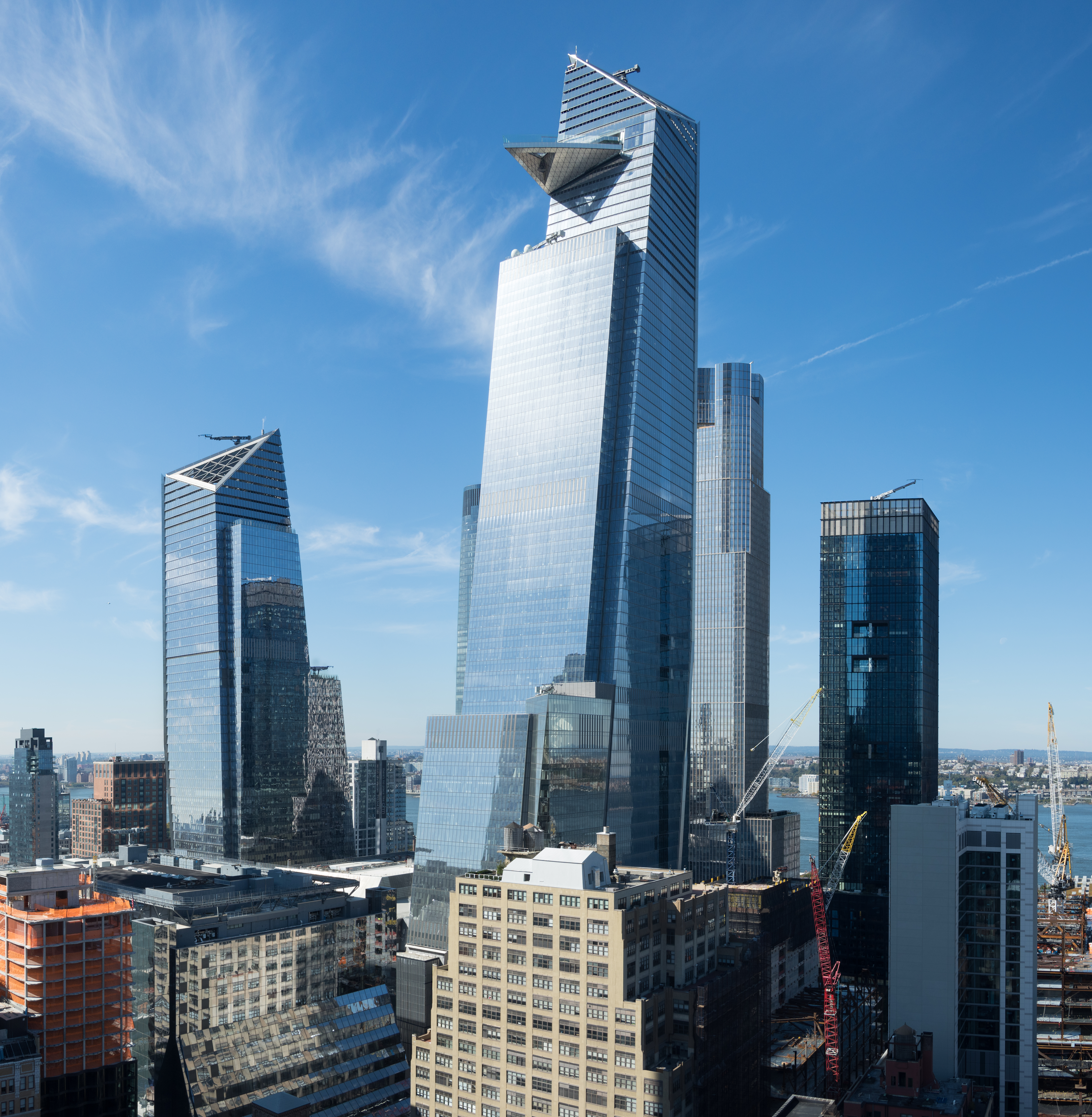 Hudson Yards viewed from the top of Hudson Commons